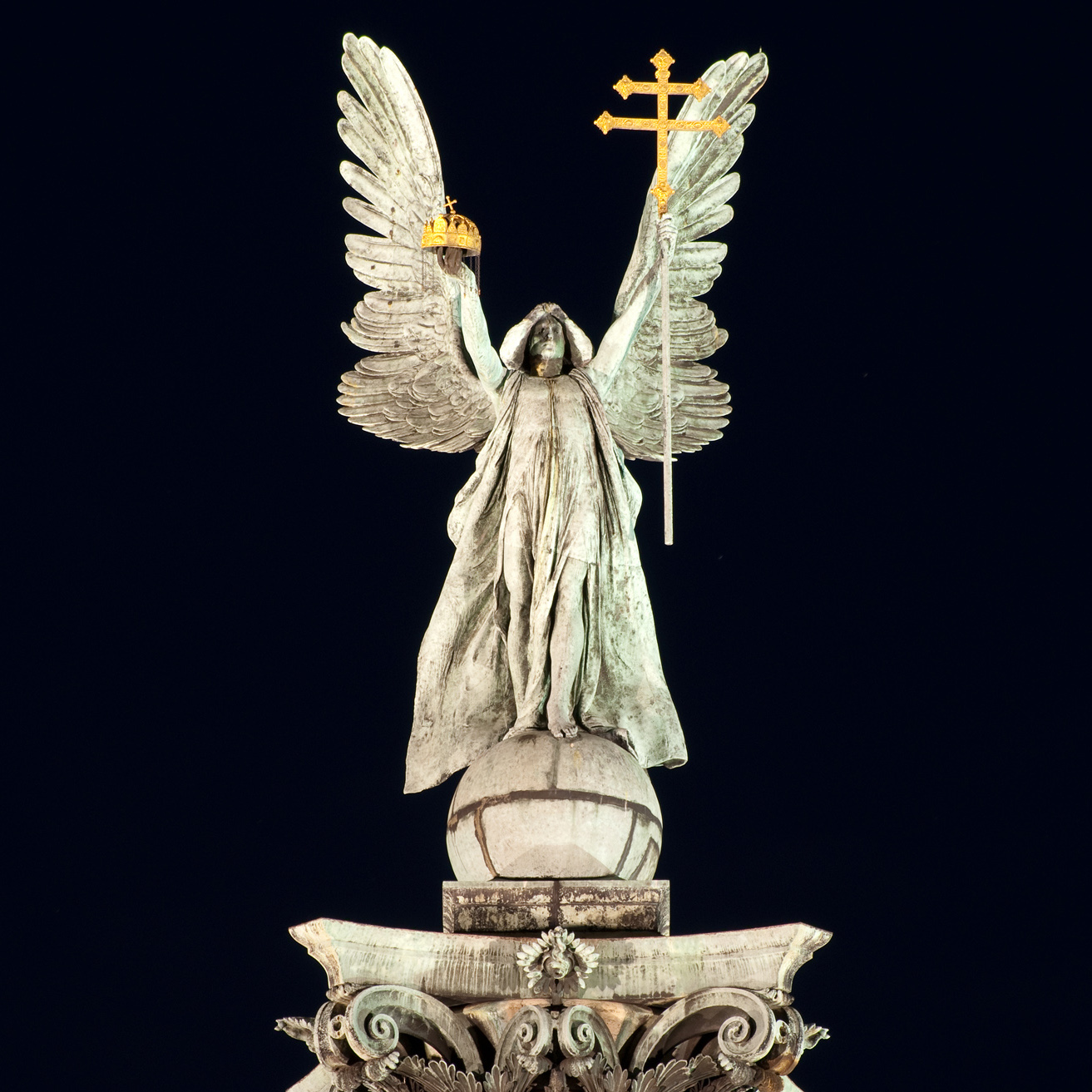 Gabriel archangel's statue in the Heroes' Square by night